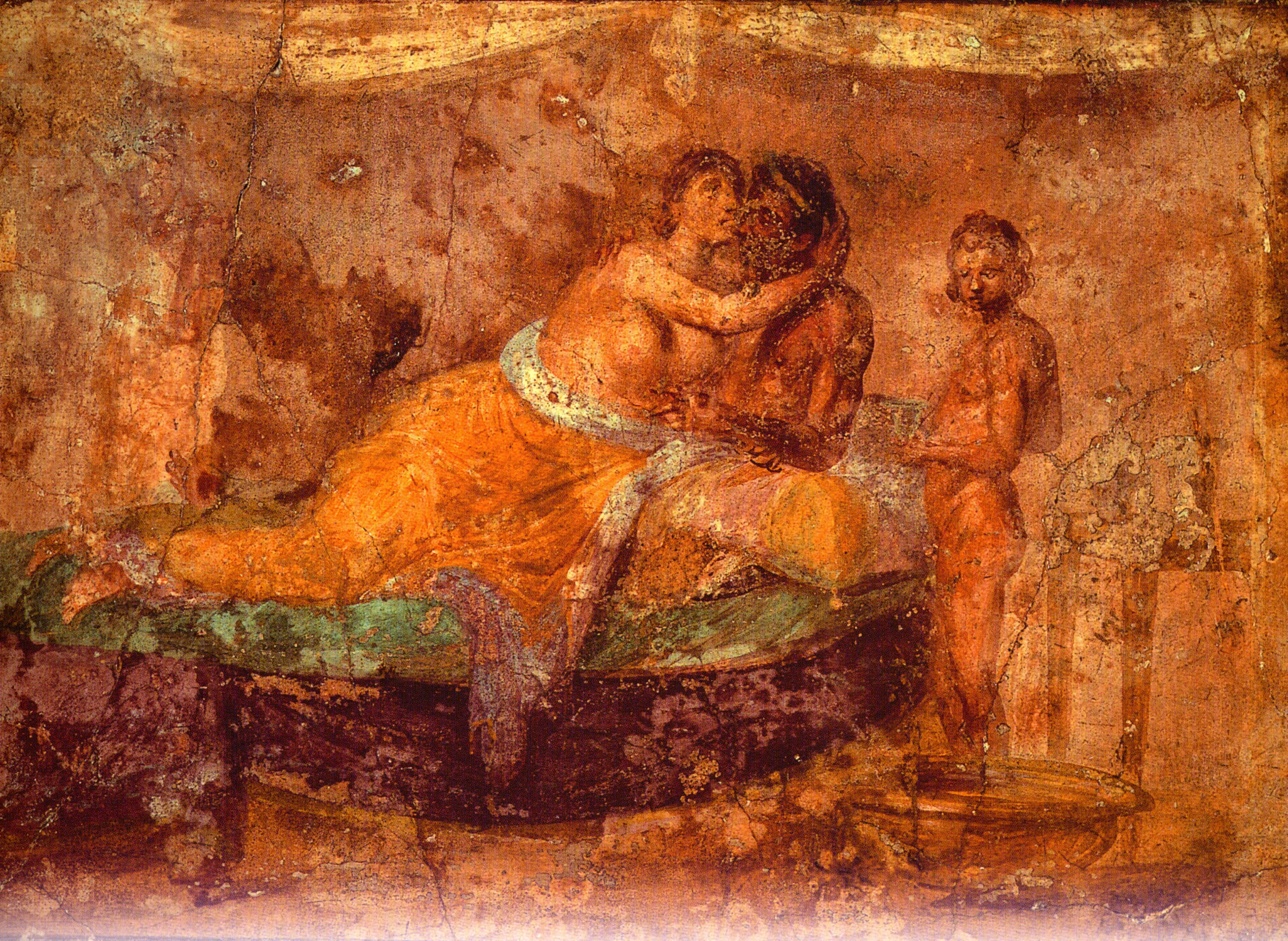 Fresco of couple in bed. Now the bride appears to be quite willing. A nude servant on the right looks to the side. Fresko from the right side of the right wall of cubiculum D in the Casa della Farnesina in Rome. Ca. 19 BC. Museo Nazionale Romano, Palazzo Massimo alle Terme, Inv. 1188.